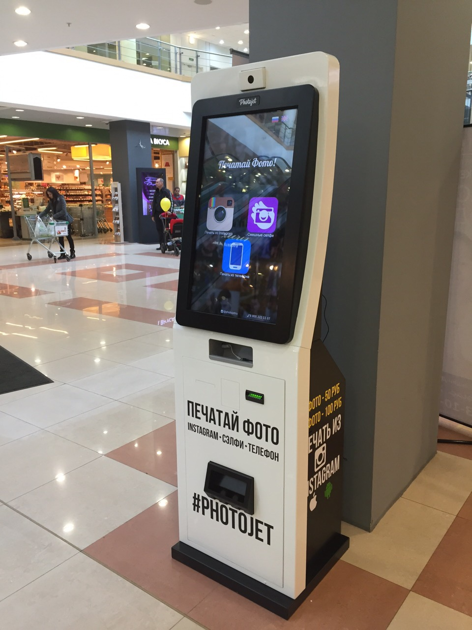 Photo-printing terminal Photojet "Premium"